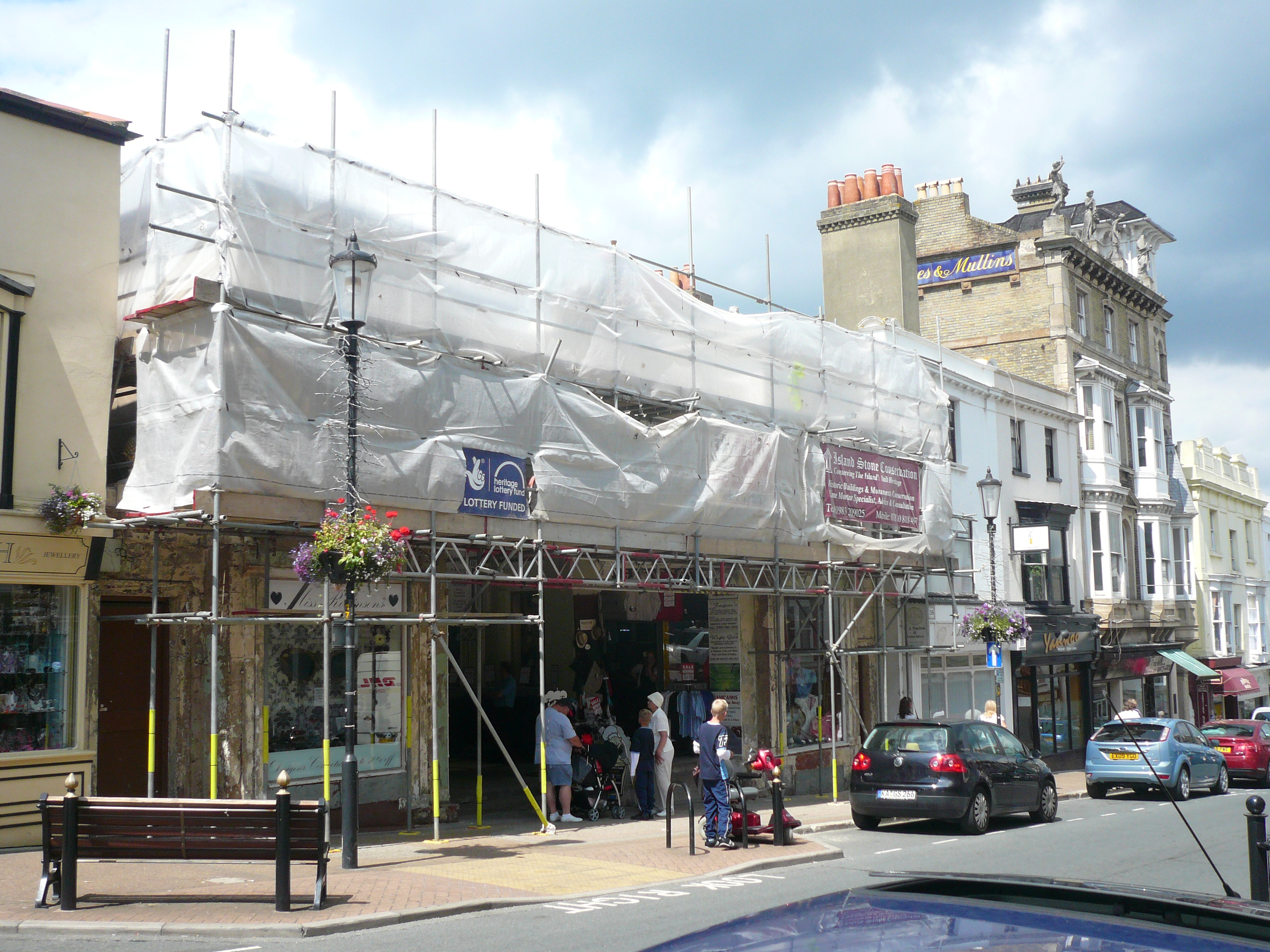 Restoration work being carried out to the Royal Victoria Arcade in Union Street, Ryde, Isle of Wight. It is covered in scaffolding but shops remain open. A poster for Heritage Lottery funding can also be seen.